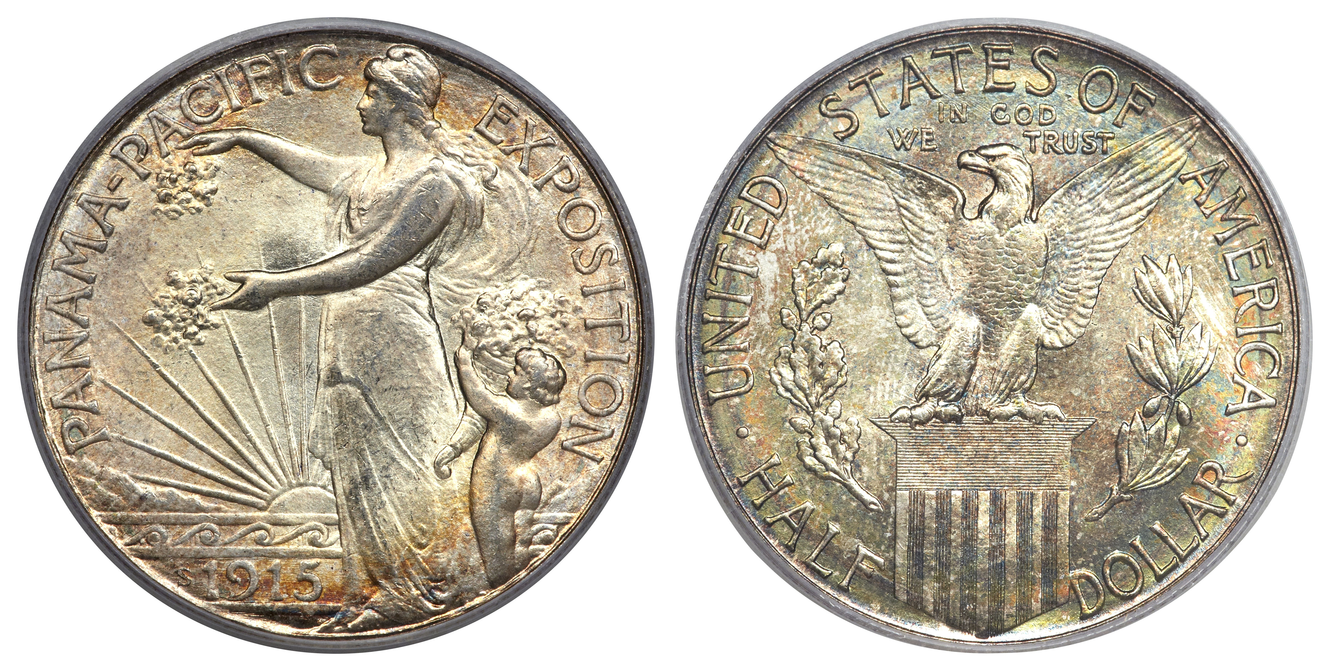 1915-S 50C Panama-Pacific(1181-6565)